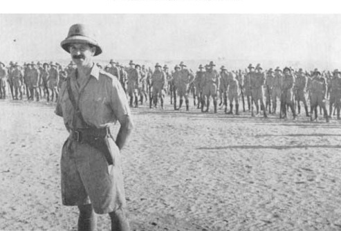 Lieutenant Colonel Les Andrew VC and the New Zealand 22nd Battalion at Helwan after their return from Crete, July 1941